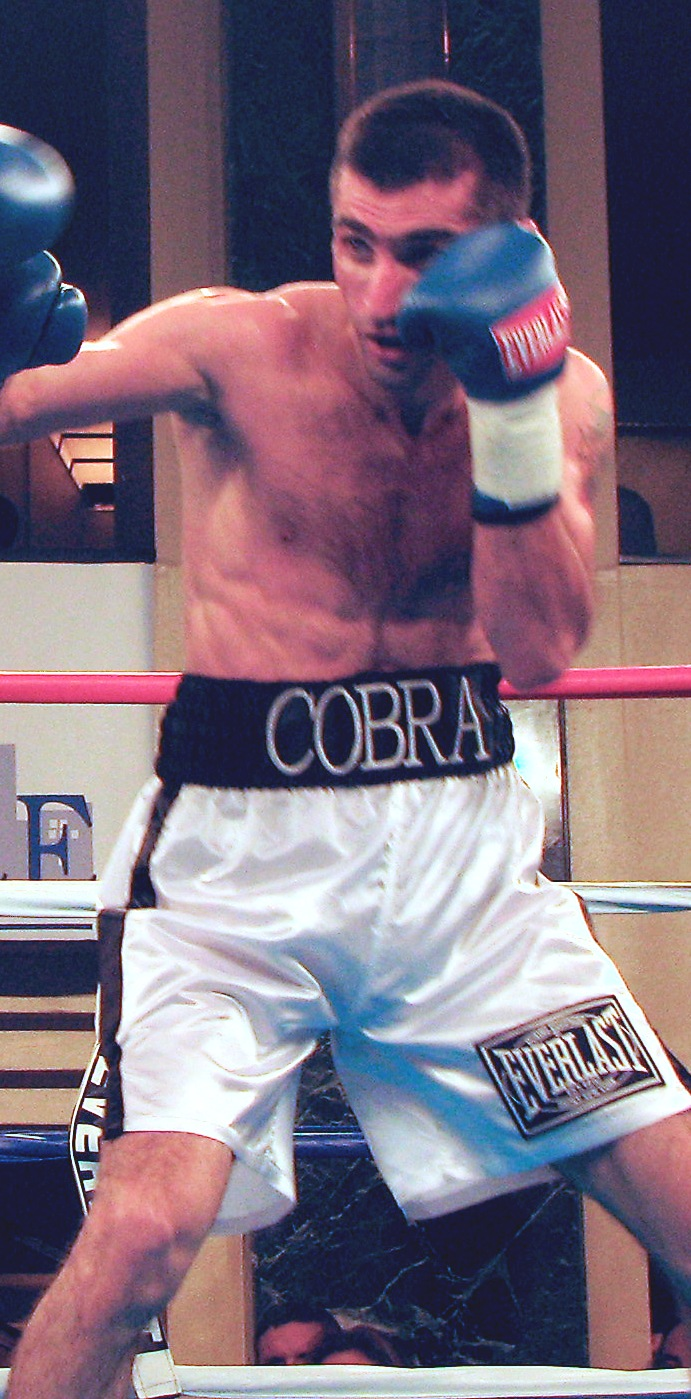 Koba Gogoladze throws a jab during his 12-round victory over Antonio Davis.